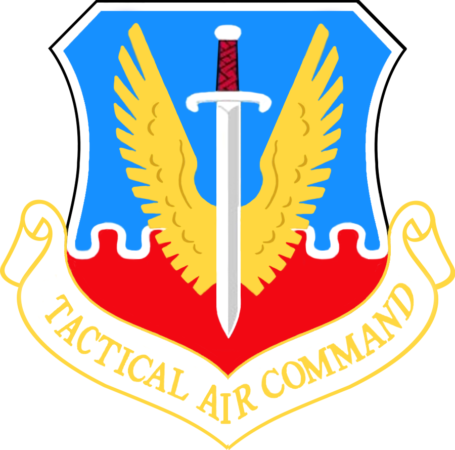 Emblem of the USAF Tactical Air Command